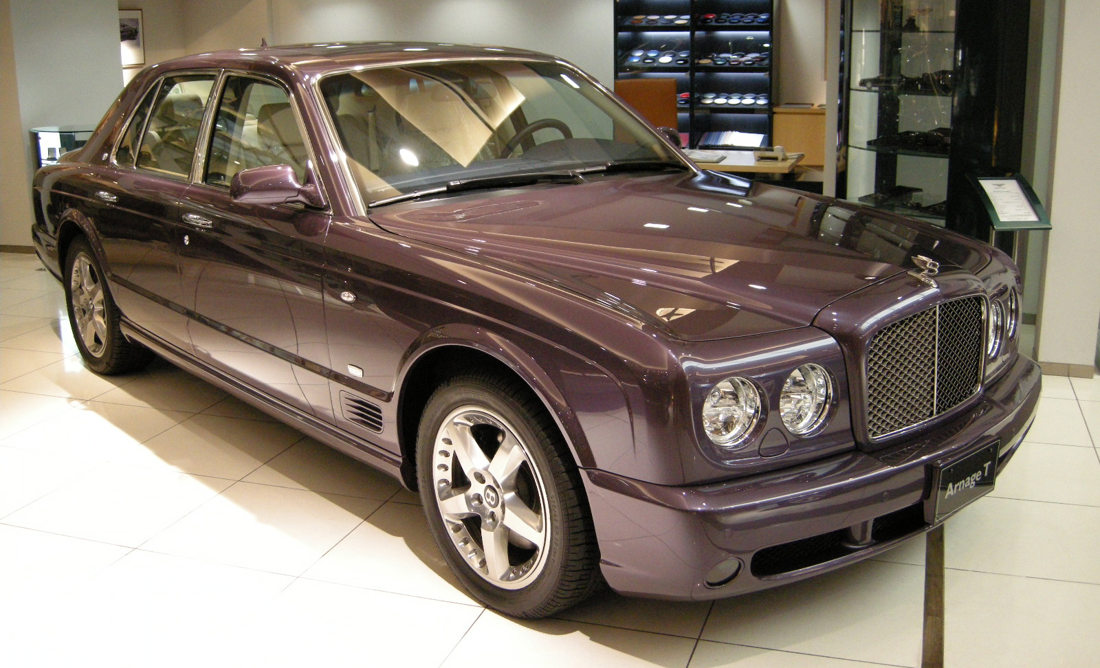 2007 Bentley Arnage T in Cornes Aoyama Showroom (Aoyama,Tokyo)